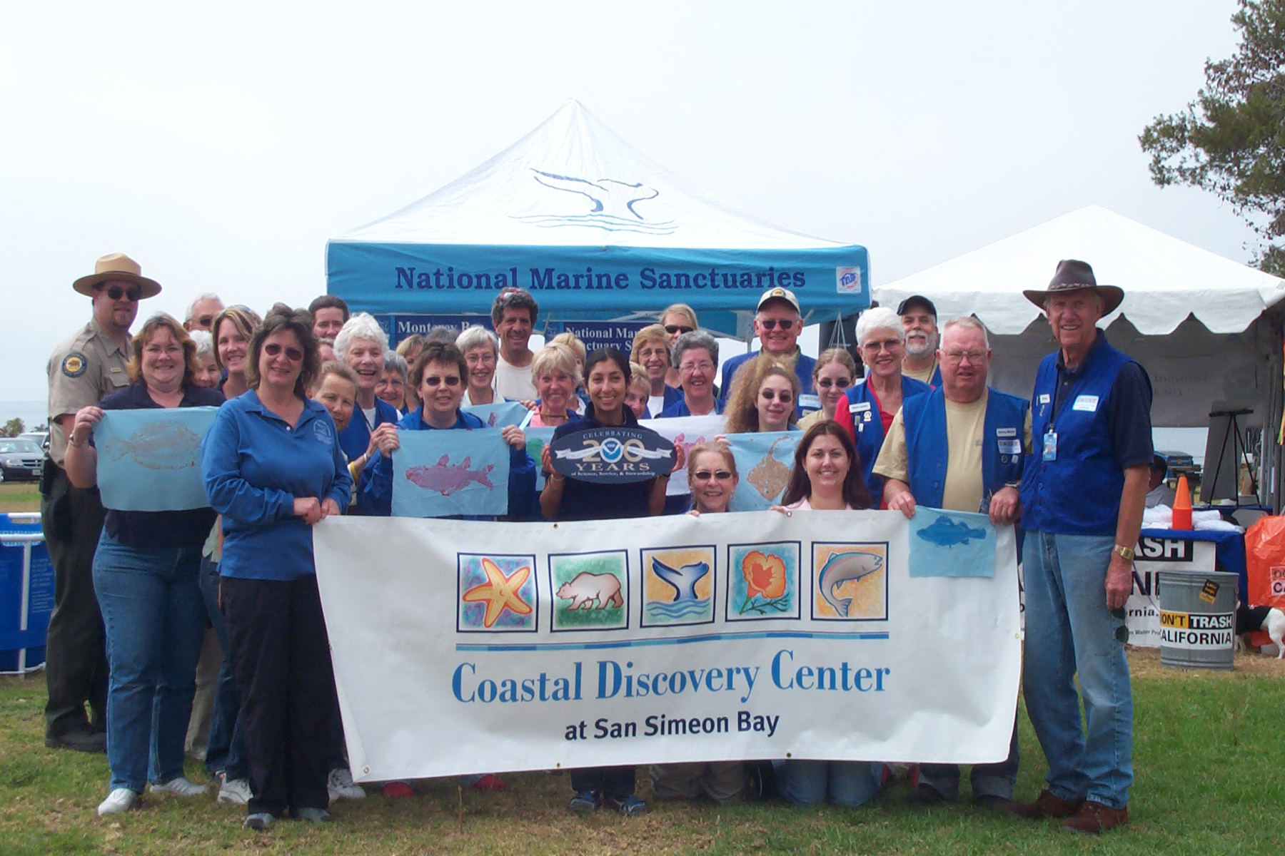 Greetings from San Simeon, California! The Monterey Bay National Marine Sanctuary celebrated 15 years with an Ocean's Fair at the Coastal Discovery Center at San Simeon Bay in northwestern San Luis Obispo County, on the Central Coast of California. The staff, volunteers and exhibitors who organized the Ocean's Fair are pictured here. Exhibitors at the event included the National Weather Service, NOAA's Office for Law Enforcement and many others. Along with making fish prints and models of ROV's (remotely operated vehicles), visitors also enjoyed the center's educational exhibits. The Coastal Discovery Center at San Simeon Bay is cooperatively managed by the Monterey Bay National Marine Sanctuary and California State Parks.